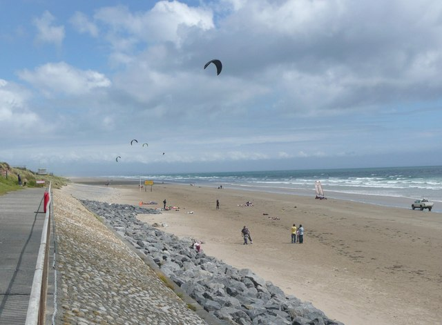 The beach, with kites and sand yachts, Pendine The yellow sign is a warning about the army firing range ahead.